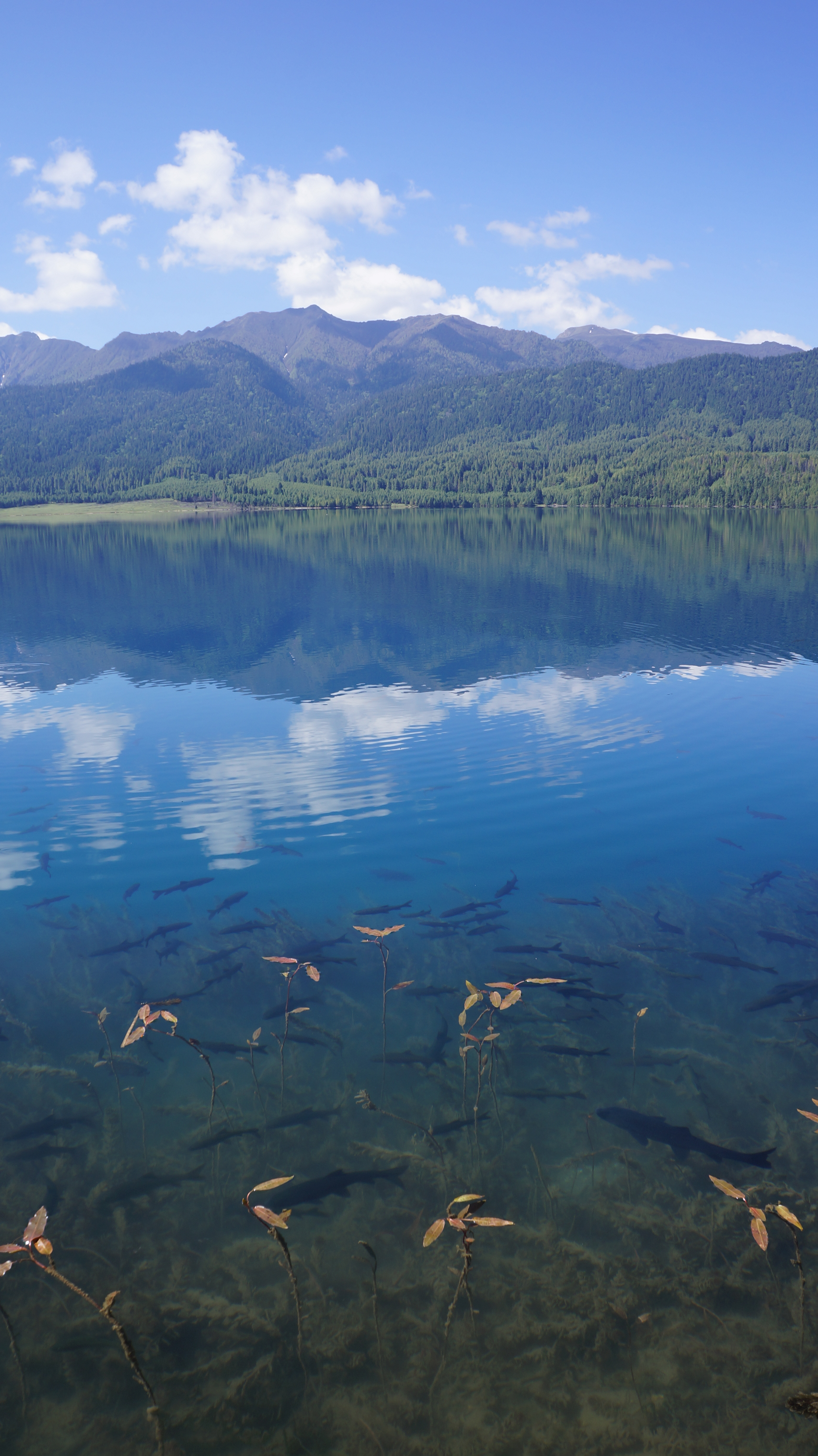 Fishes visible in the clear water of Rara Lake